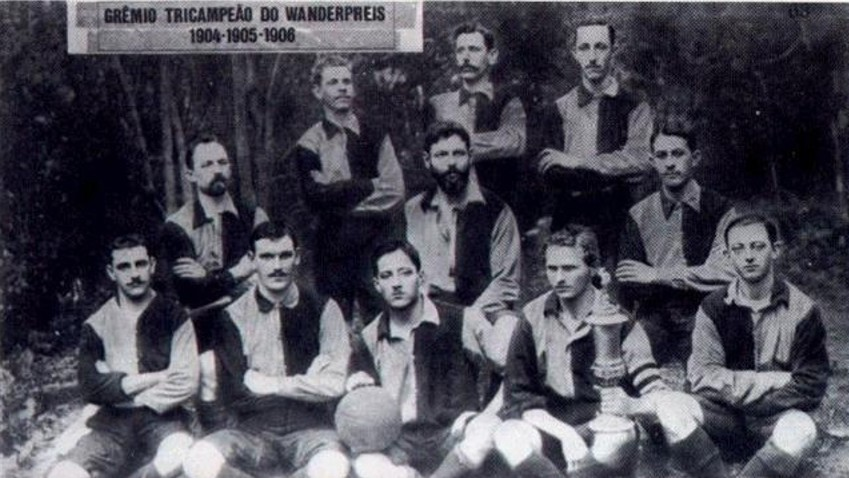 Grêmio Foot-Ball Porto Alegrense squad.